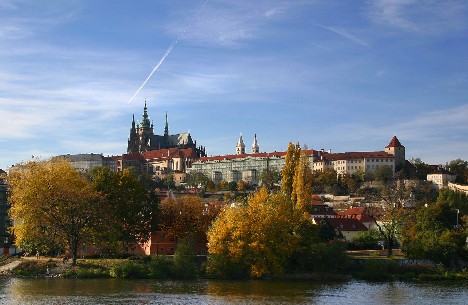 Panoramic view of Prague Castle